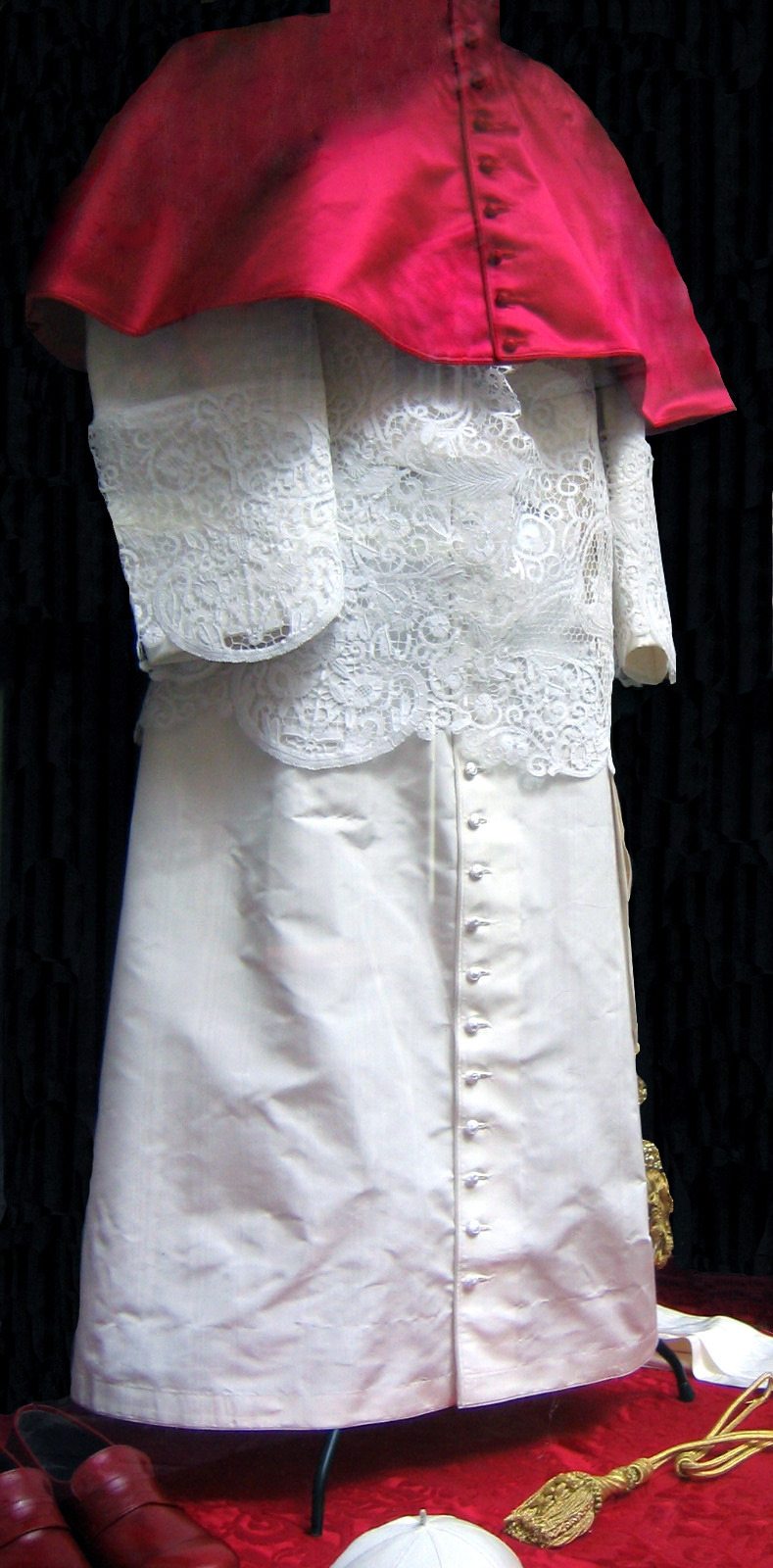 Papal choir dress